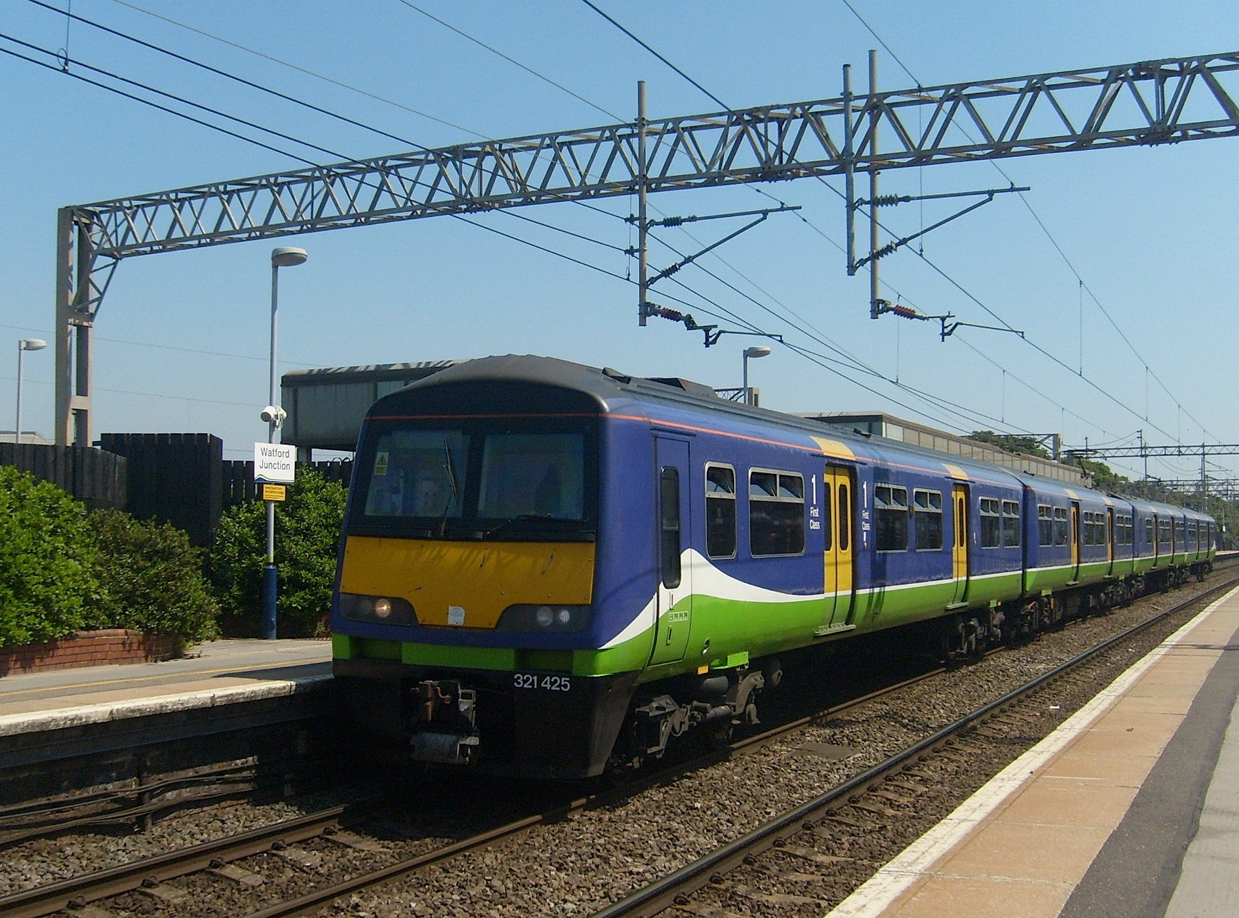 London Midland Class 321/4 EMU No. 321425 'Bletchley Pride' at Watford Junction